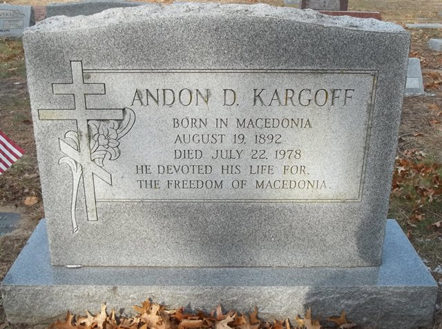 Andon Kargoff from Ekshisu